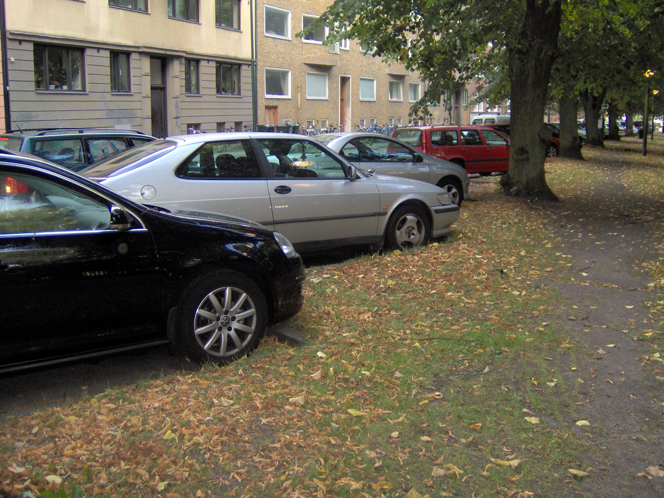 Photo of parking in Lund, Sweden.